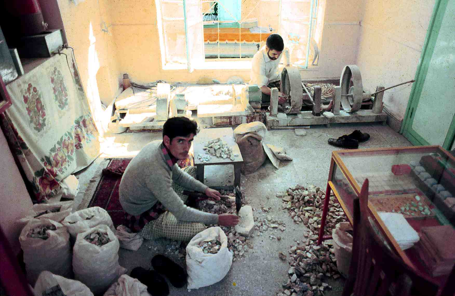 Cutting & grinding turquoise in Mashhad, Iran.